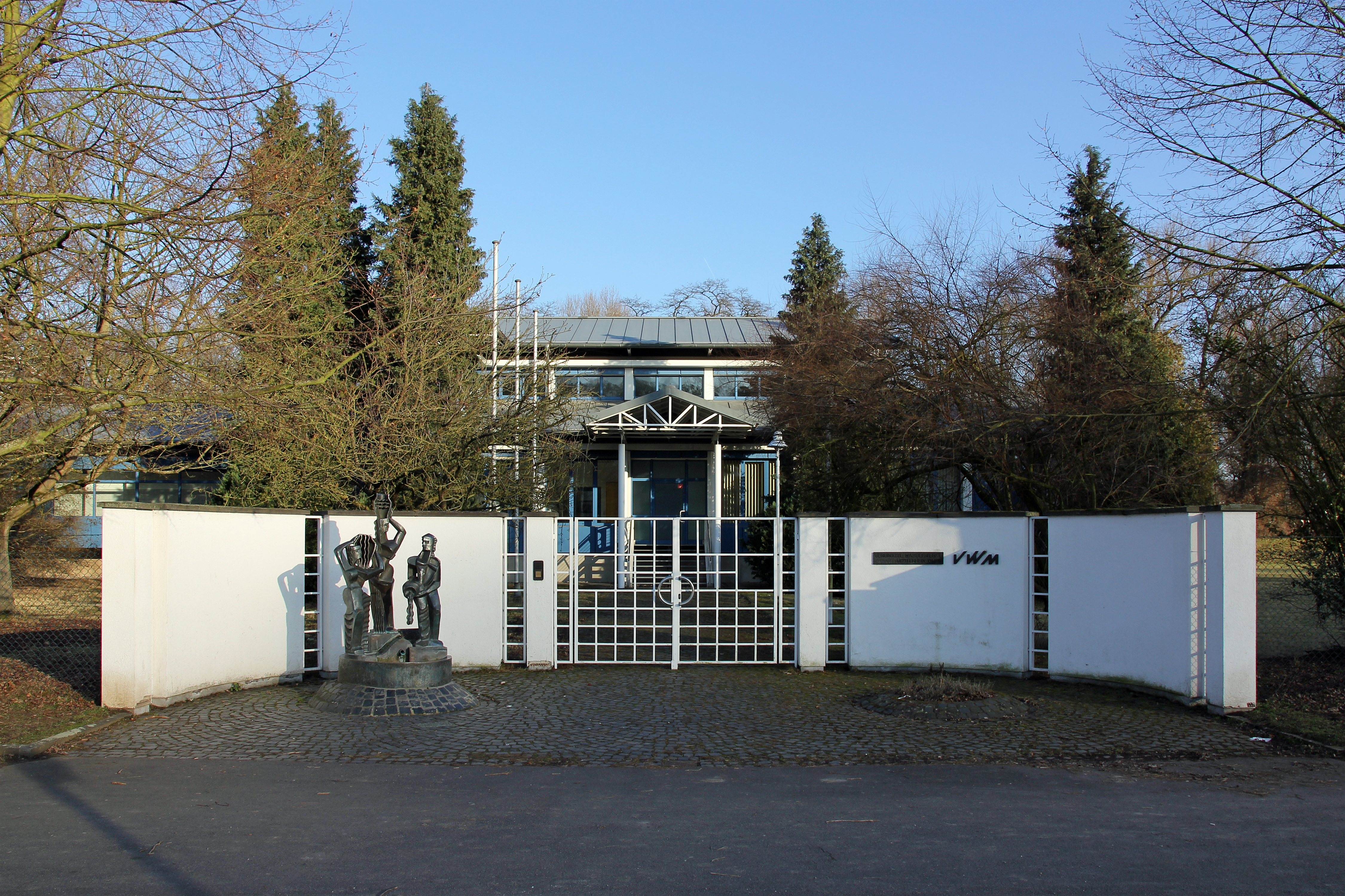 Water work in Koblenz